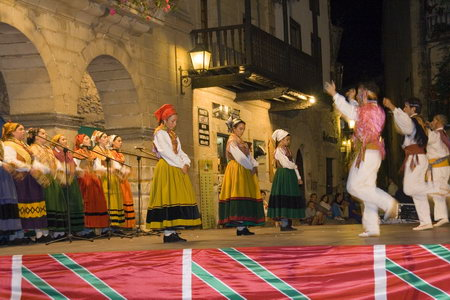 Group of cantabrian traditional dances in Santillana del Mar (Cantabria, Spain)